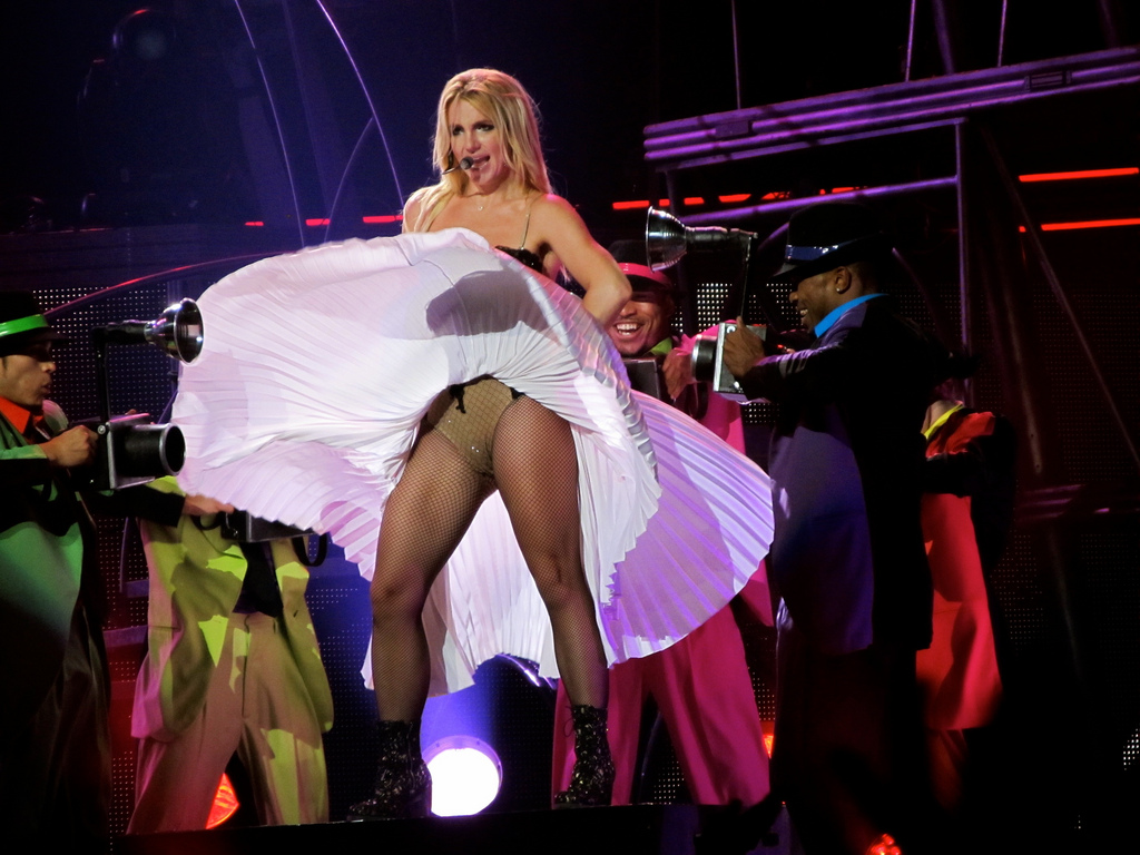 Britney Spears performing "If U Seek Amy" at the Femme Fatale Tour on July 26, 2011.